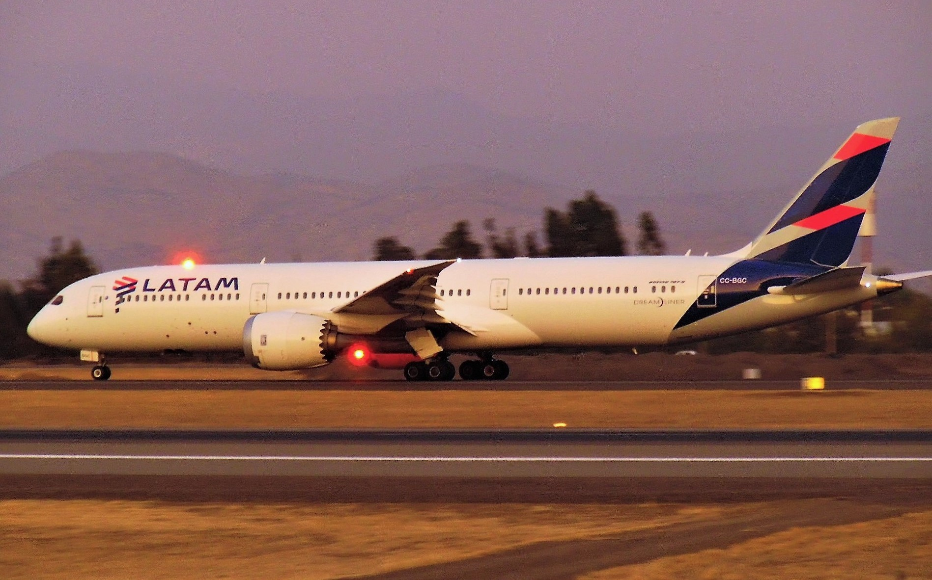 LATAM Chile Boeing 787-9 at Santiago Airport (2017)